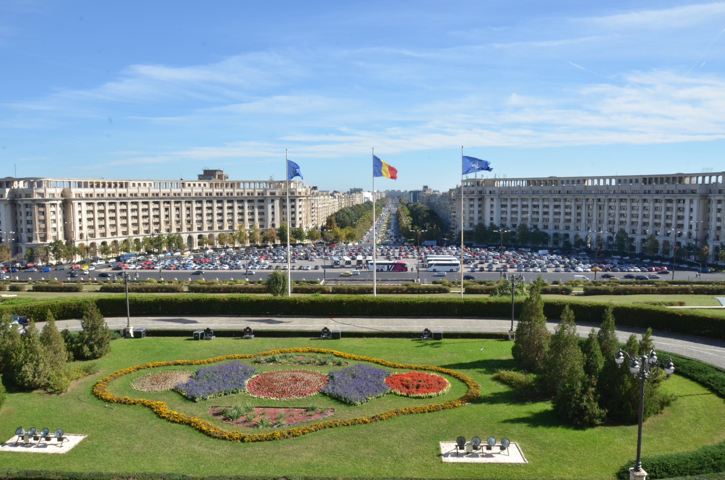 EPP_Congress_2361